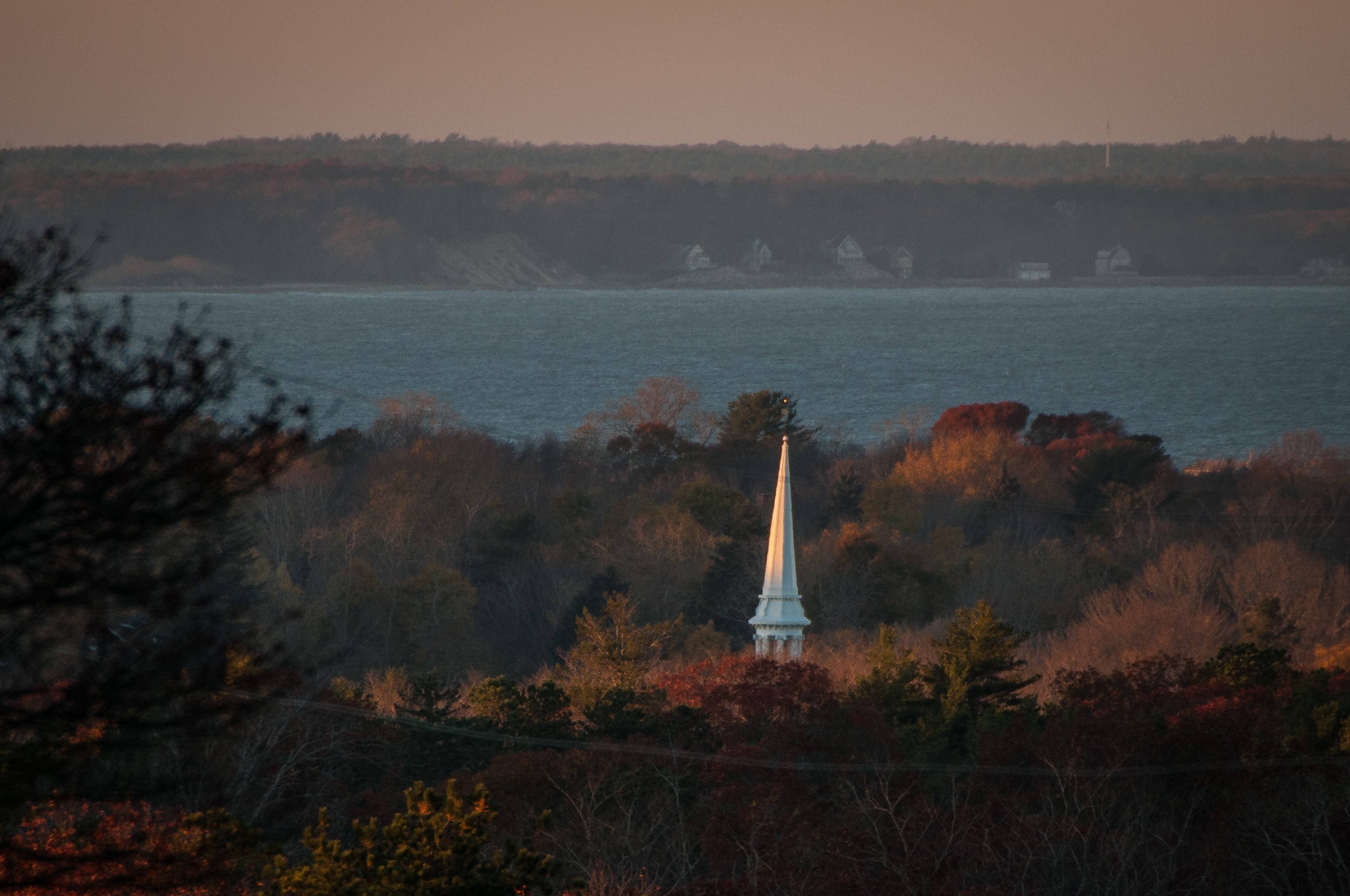 Spire of First Church of Christ, Sandwich MA